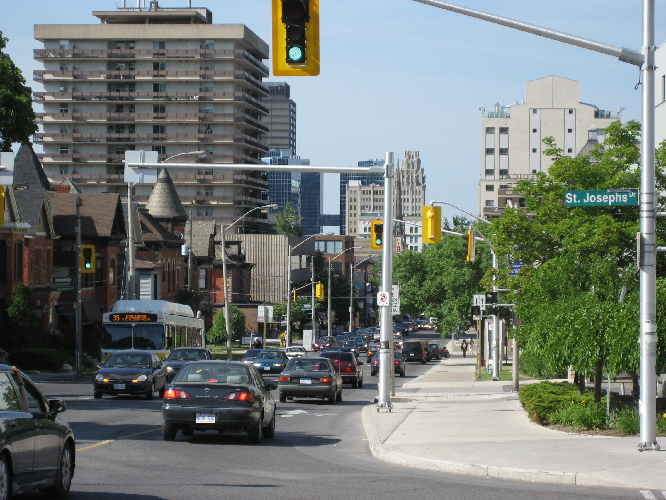 James Street South, street life, downtown Hamilton, Ontario